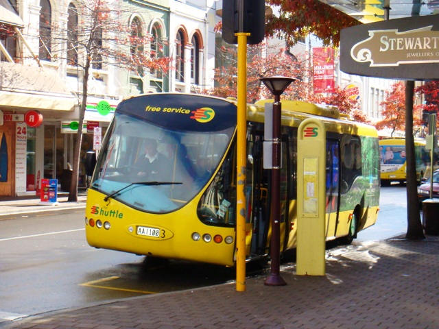 The Shuttle